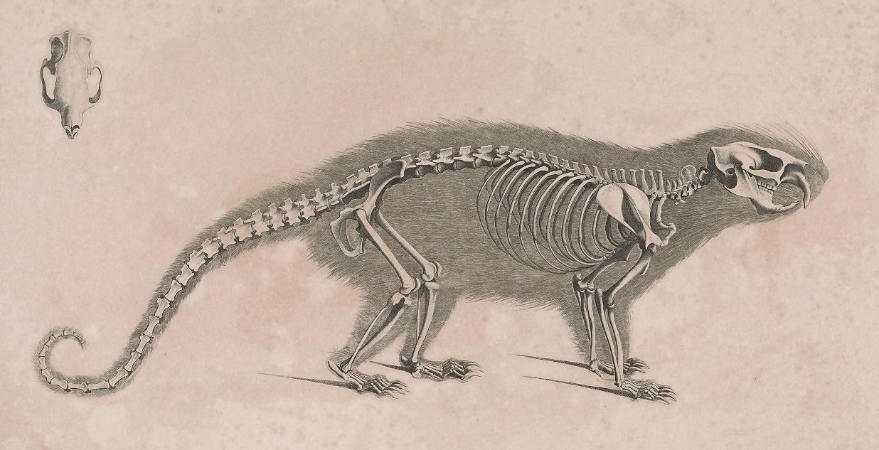 skeleton of Brazilian porcupine